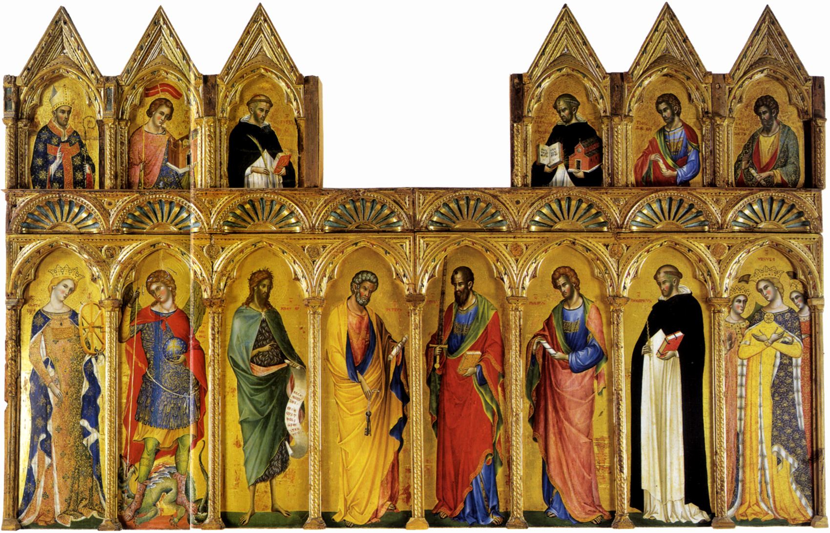 San Severino Marche, Pinacoteca Comunale, Church of Saint Dominic. upper panels: St Severin the Bishop, St Venantius Martyr, St Peter Martyr; St Thomas Aquinas, St Thomas the Apostle, St Bartholomew; 33 x 45 cm, each lower panels: St Catherine of Alexandria, Archangel Michael, St John the Baptist, St Peter; St Paul, St John the Evangelist, St Dominic, St Orsola; 96 x 33 cm, each